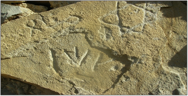 Historiku i katunit